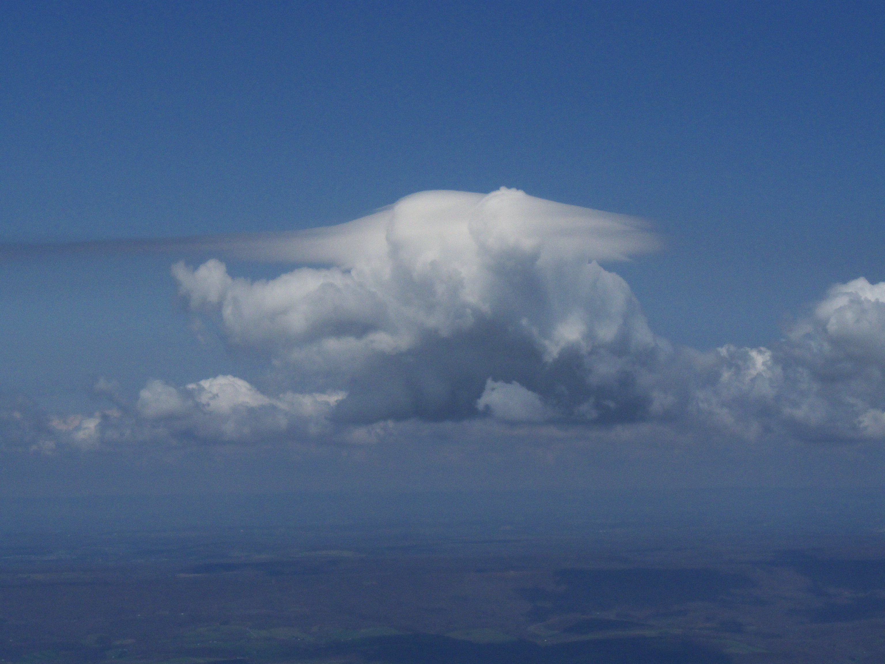 Cumulus cloud with pileus cap. Taken 2007-04-27 from a glider flying in mountain wave over the Ridge and Valley Appalachians of south central Pennsylvania USA near Bedford. View is looking southwest with a northwest wind, so the wind is blowing from right to left in the photo.